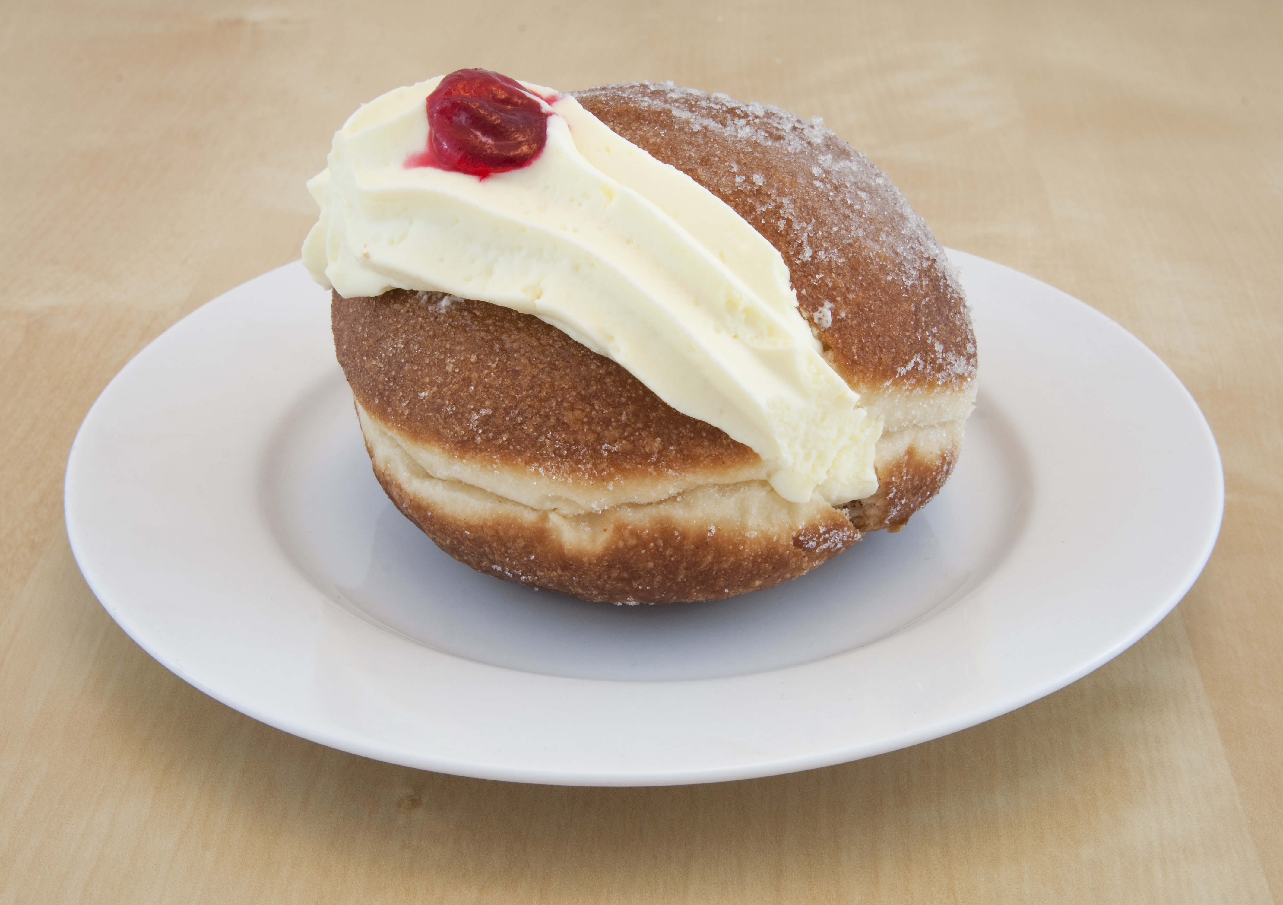 A kitchener bun, from Michel's Patisserie, Castle Plaza, Adelaide, South Australia.